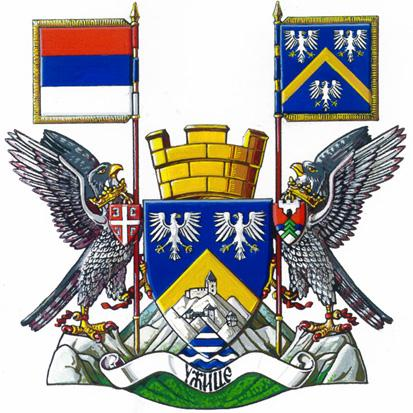 Užice coat of arms. Uploaded from Serbian Wikipedia Coat of Arms have been rendered by the Serbian Heraldic Society the White Eagle. The copyrights lies with us, the images can be used fairly for informational purposes provided the White Eagle receives the credits/links back. White Eagle Website Category:Serbian coat of arms images